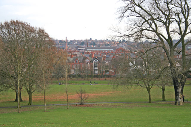 Spinney Hill Park, Leicester. This is the high spot of this ethnically diverse area of Leicester at 80 metres above sea level. It offers welcome visual relief to the narrow streets of terraced housing that make up Spinney Hills. for information.